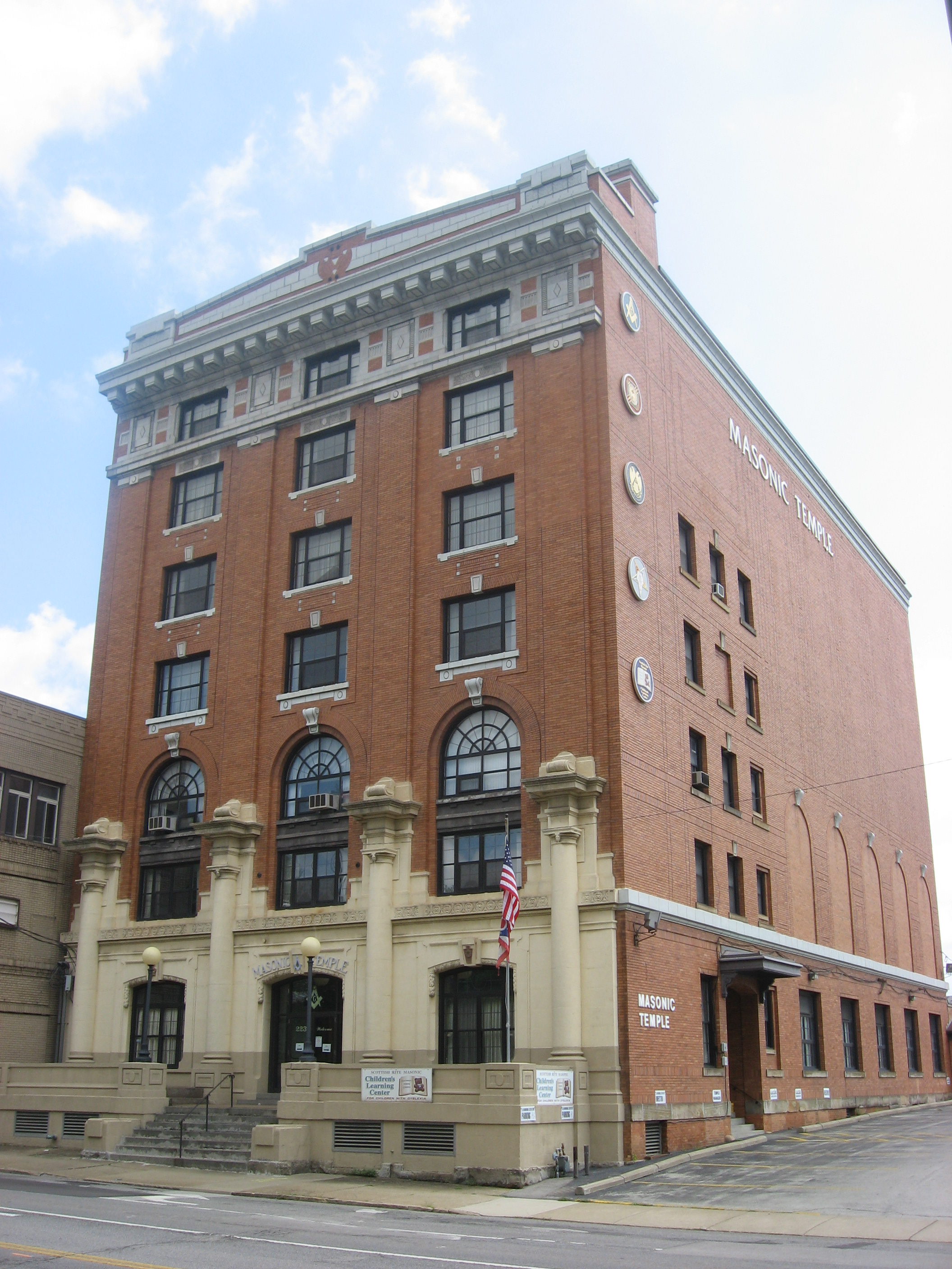 Front and southern side of the Youngstown Masonic Temple, located at 223-227 Wick Avenue in Youngstown, Ohio, United States. Built in 1909, it is listed on the National Register of Historic Places.